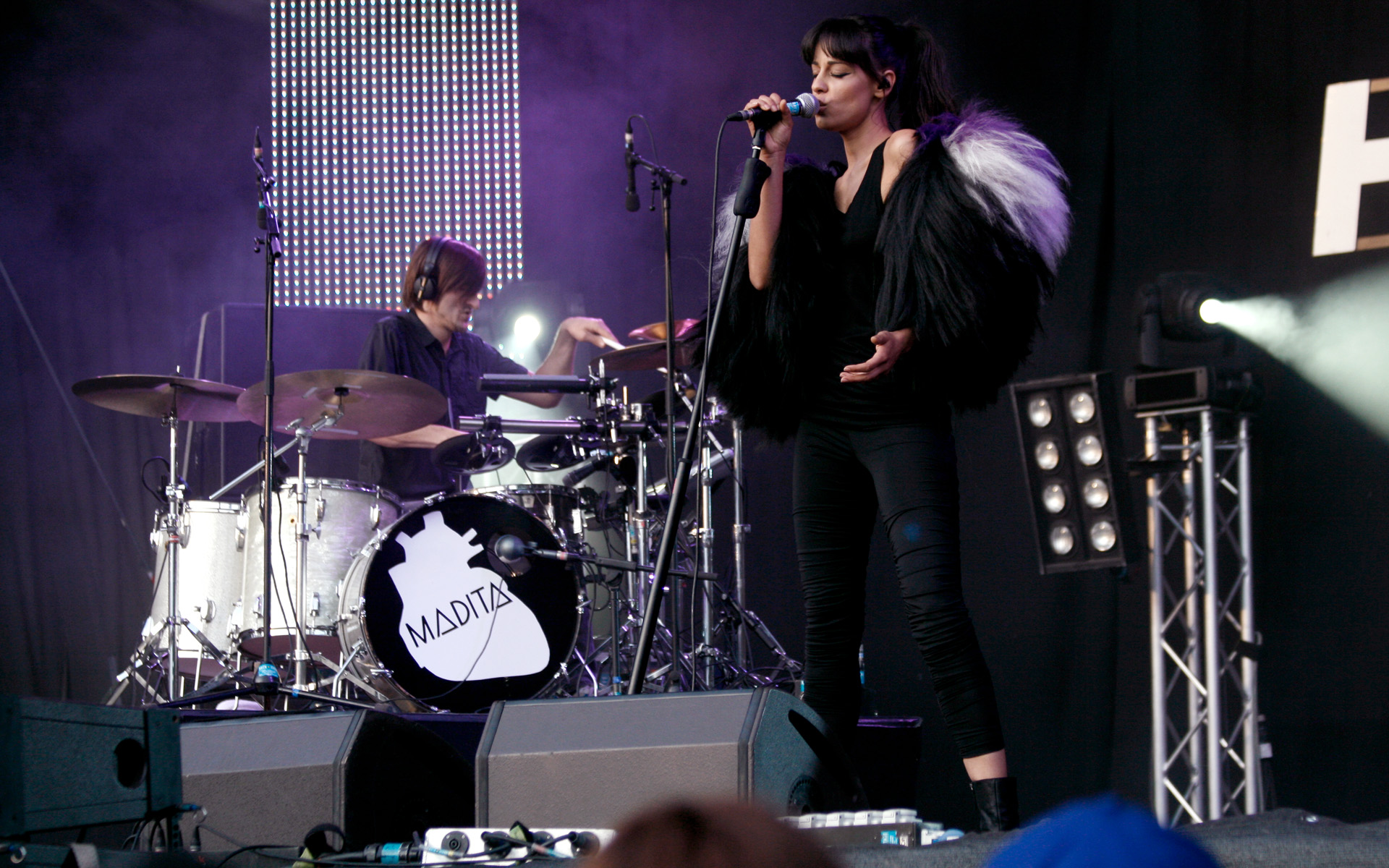 Madita - concert at the Donauinselfest in Vienna.